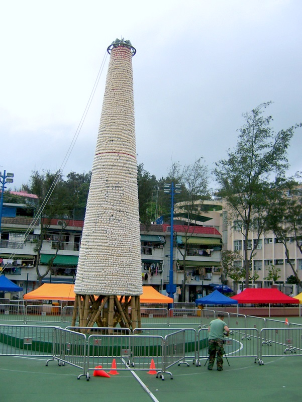 By Tsui Sing Yan Eric (